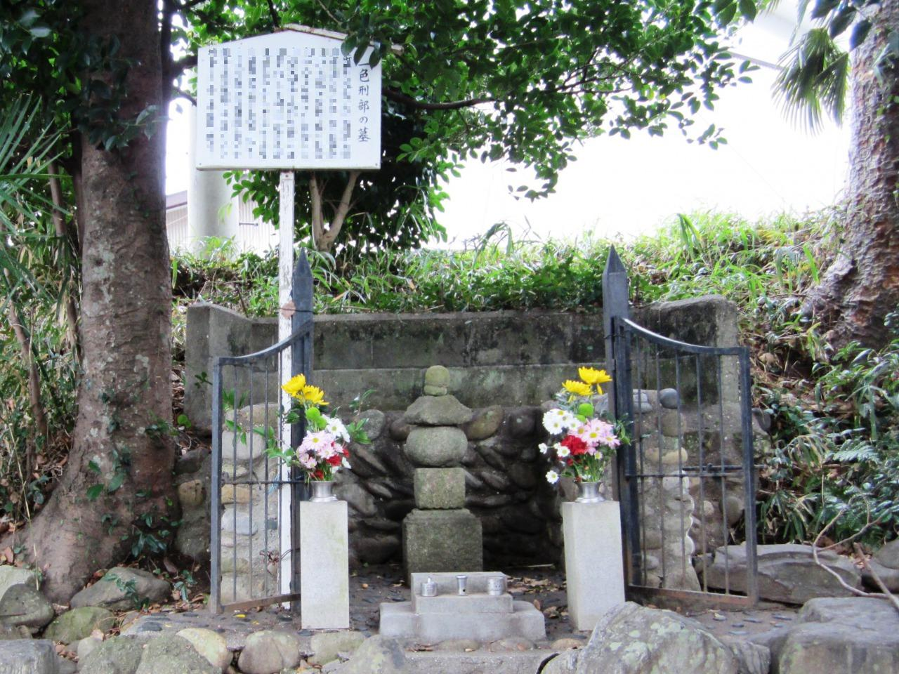 Grave of Isshiki Gyōbu in Toyokawa, Aichi.